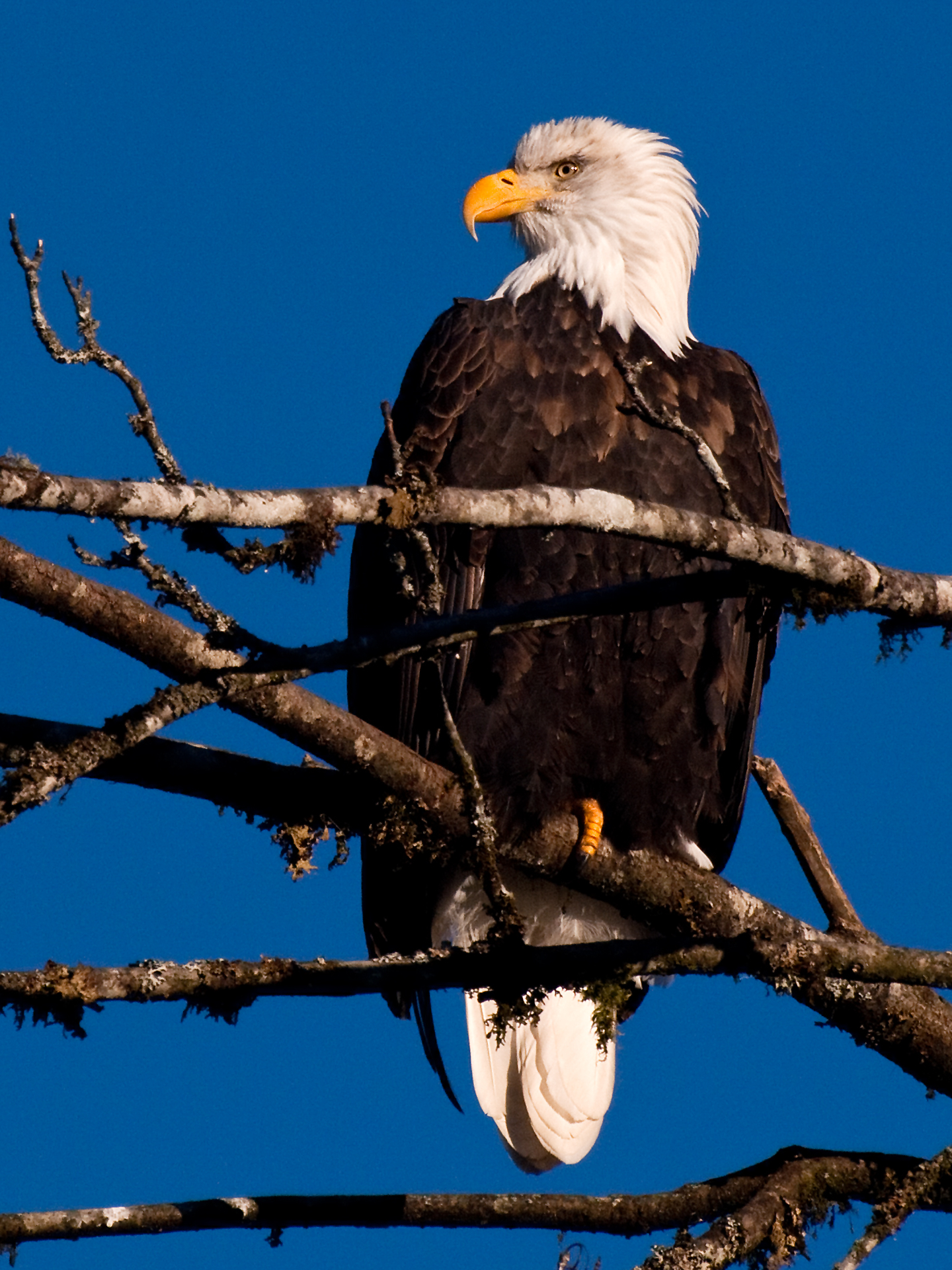 Bald Eagle in the Skagit valley, Washington, USA.